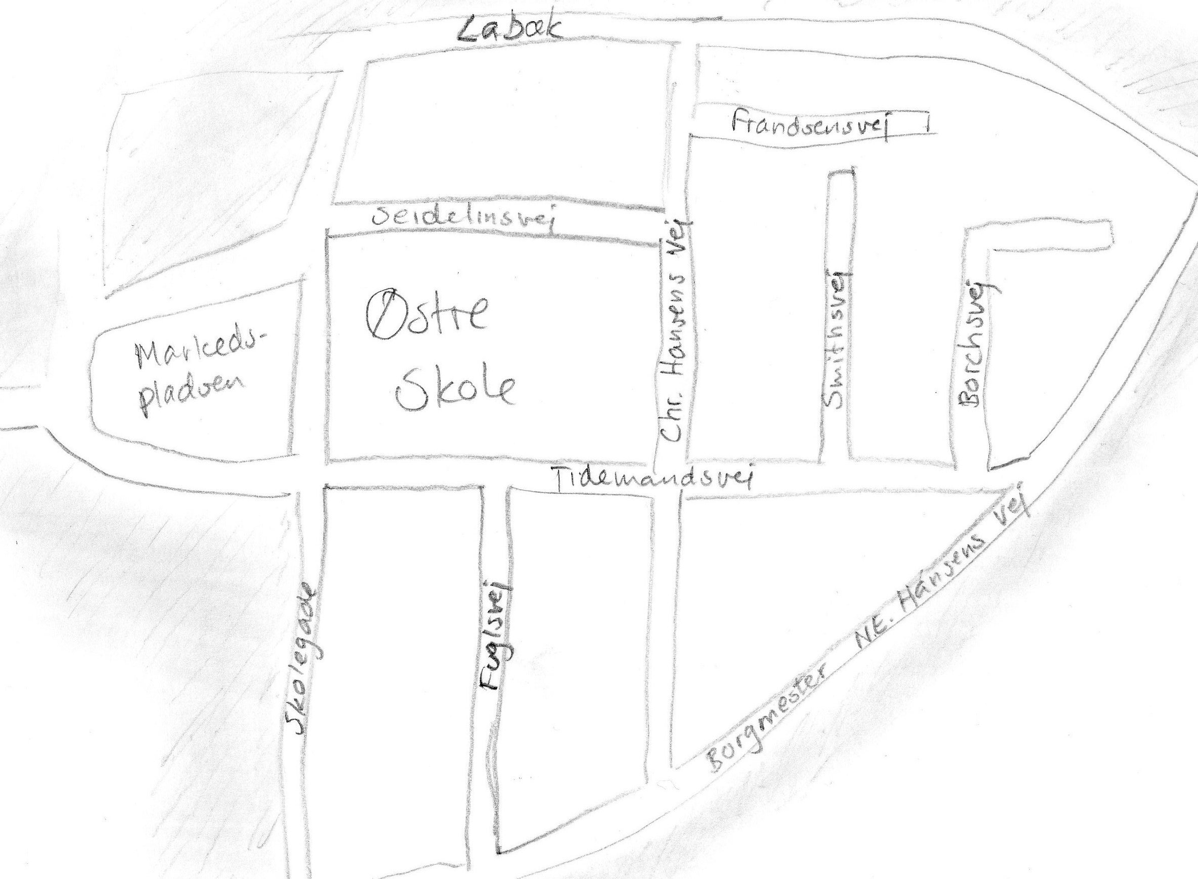 Map of the district "Konsortiet" in Holbæk, Denmark